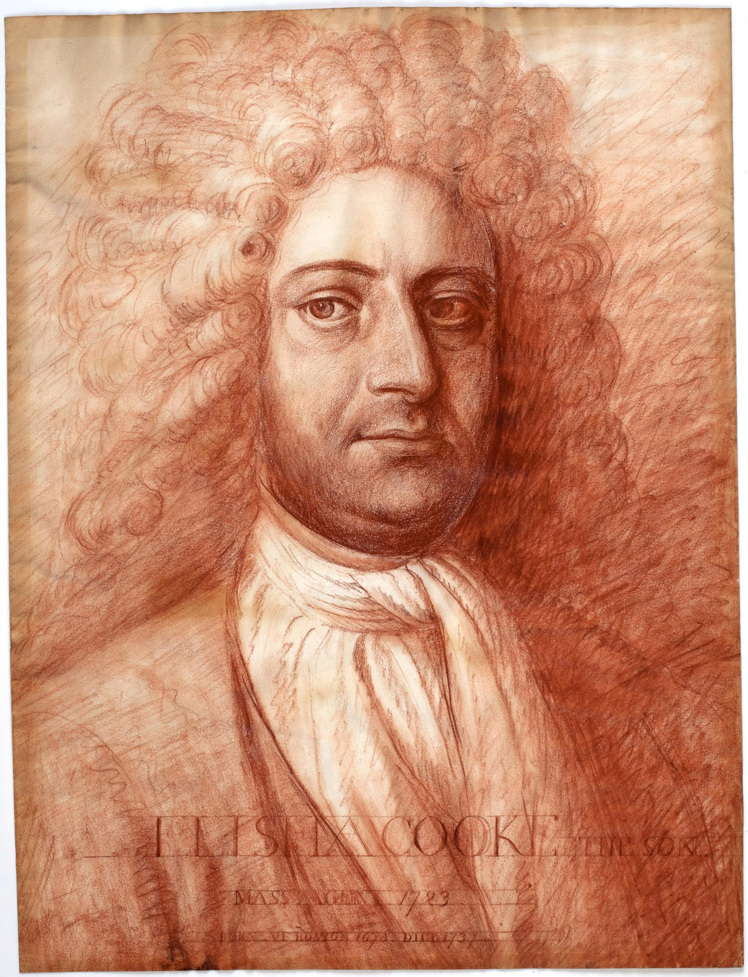 Massachusetts politician Elisha Cooke, Jr.